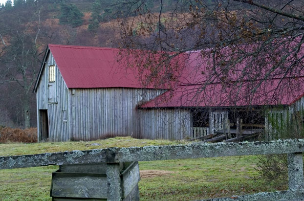 The Old Bucket Mill. On the River Feugh near Finzean and the Forest of Birse